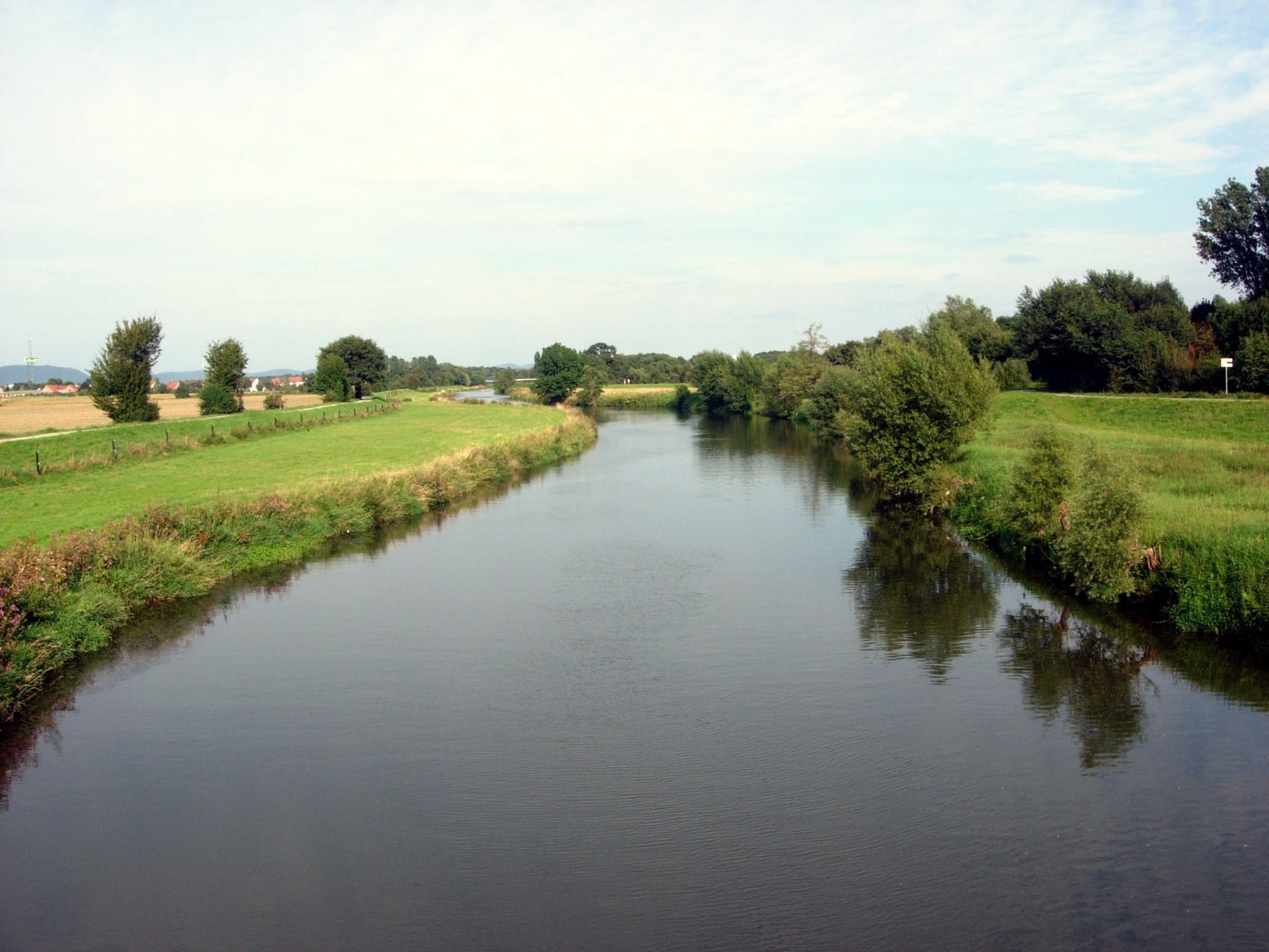 Werre River in town of Löhne, District of Herford, North Rhine-Westphalia, Germany.